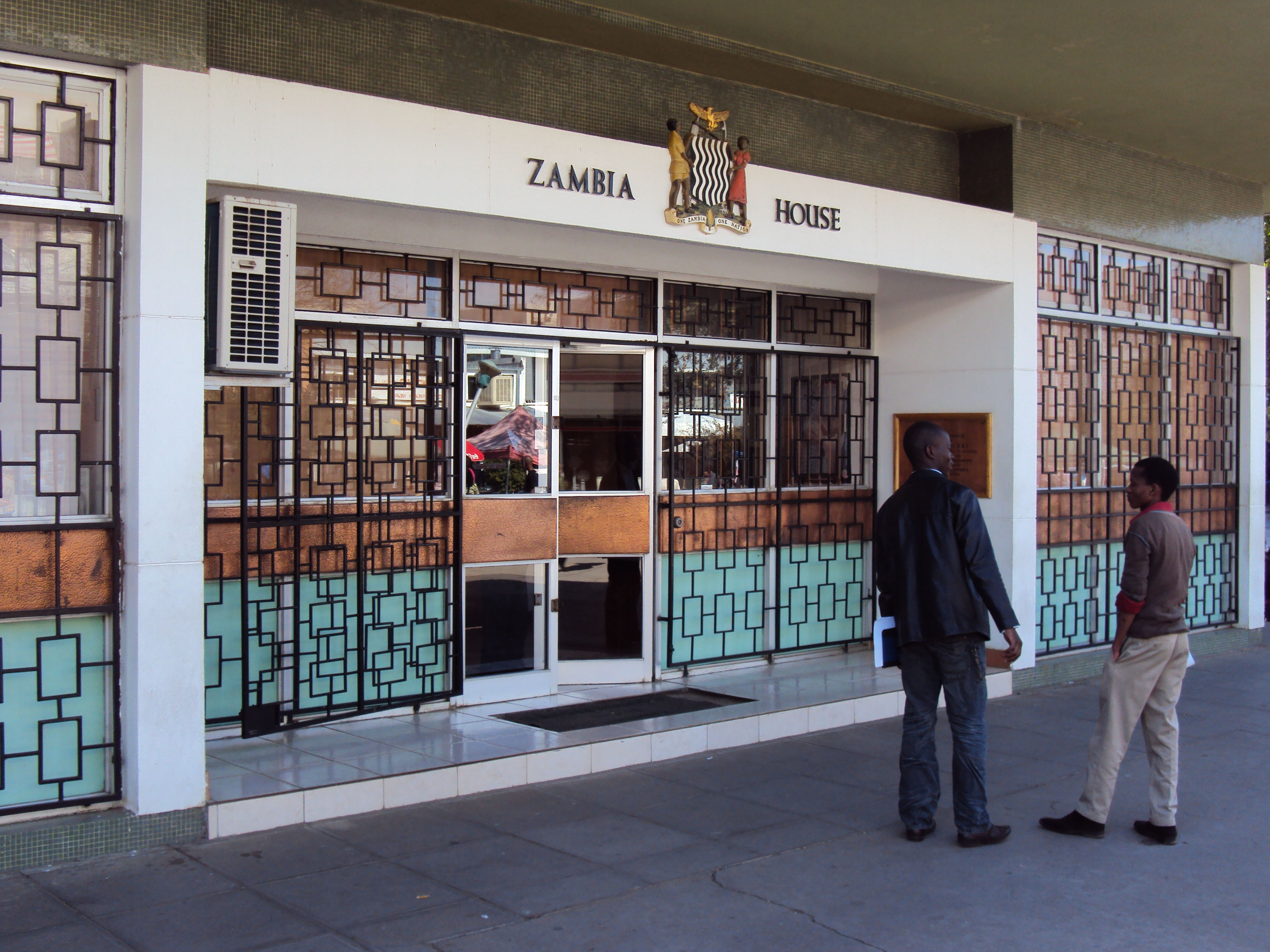 Zambian Embassy - Gaborone, Botswana